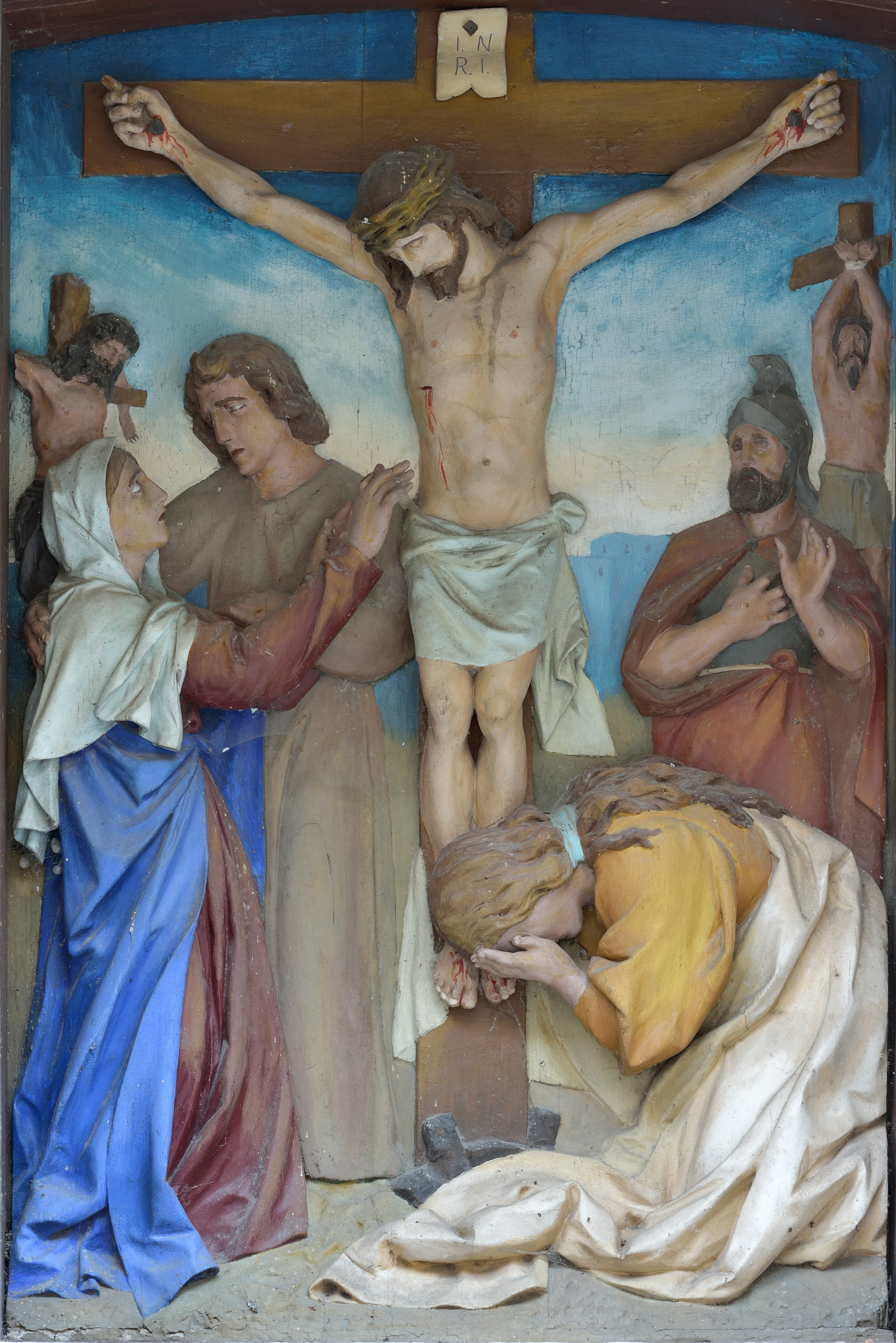 The twelfth station of the Way of the Cross in Laghel Arco - Jesus dies on the cross.